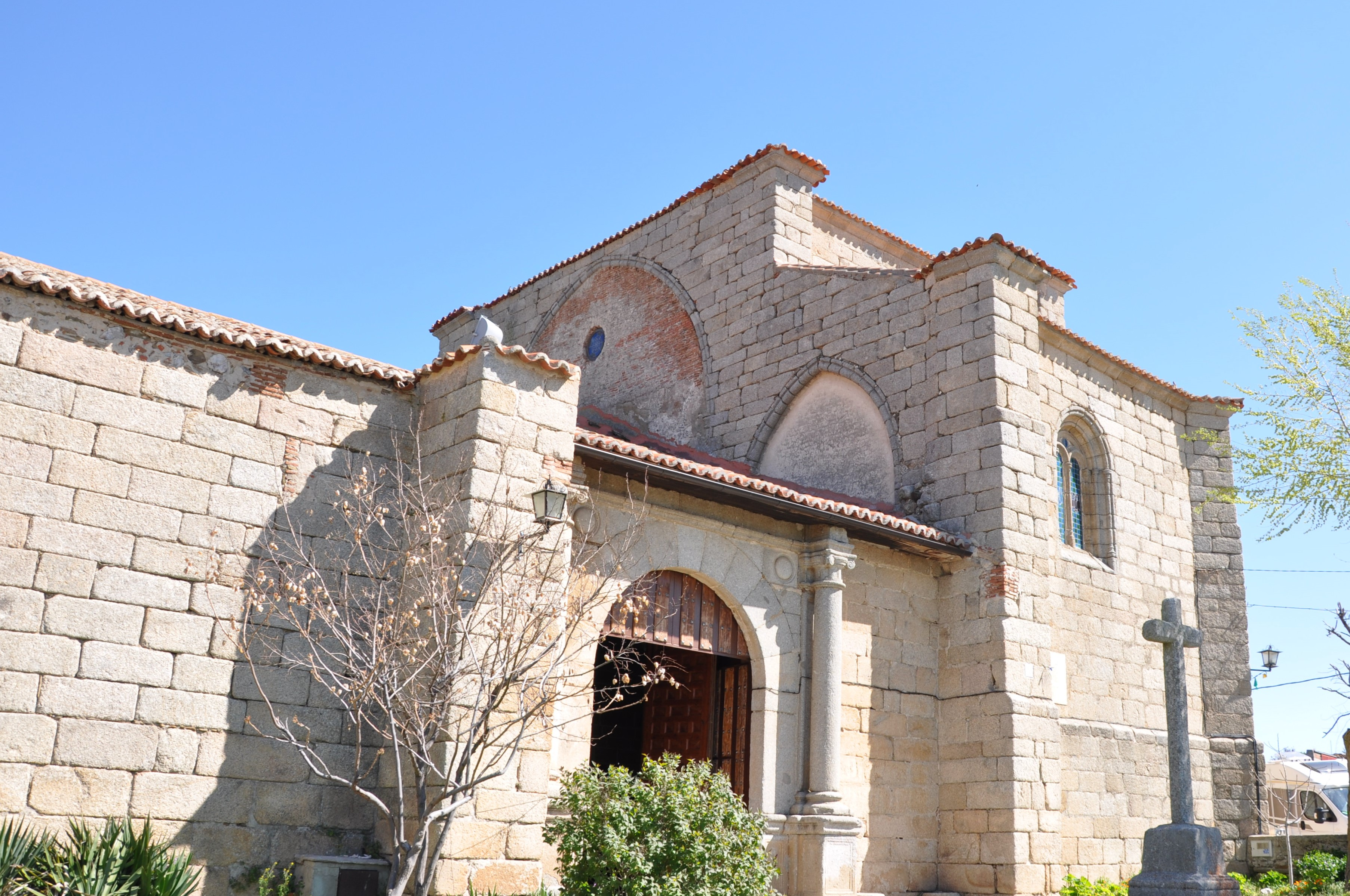 Cover and head of the parish church of Mirueña de los Infanzones, Avila, Spain.